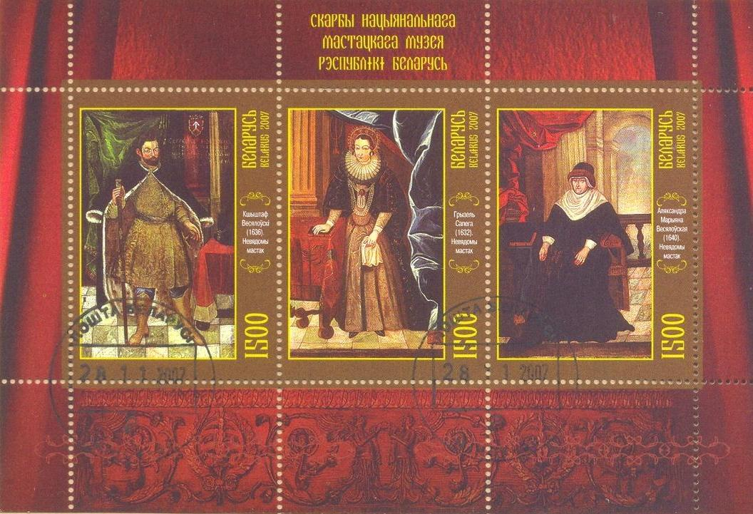 Belarusian National Arts Museum. The paintings (from left to right) are: Krzysztof Wiesiołowski (1636), by an unknown painter, Grizeli Sapega (1632), by an unknown painter, and of Alexandra Marianna Veselovskaya (1640), also by an unknown painter. Stamp of Belarus, 2007.